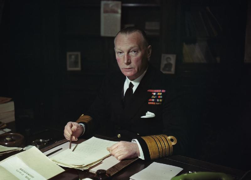 IWM caption : Portrait of Admiral of the Fleet Sir J C Tovey, GCB, KBE, DSO. Admiral Tovey served as Commander in Chief of the Home Fleet from 1940-1943, he then went on to serve as Commander in Chief Nore, as well as First and Principal Naval Aide de Campe to the King from January 1945. He is pictured sitting at his desk, most likely while serving as Commander in Chief Nore, at Chatham, Kent.